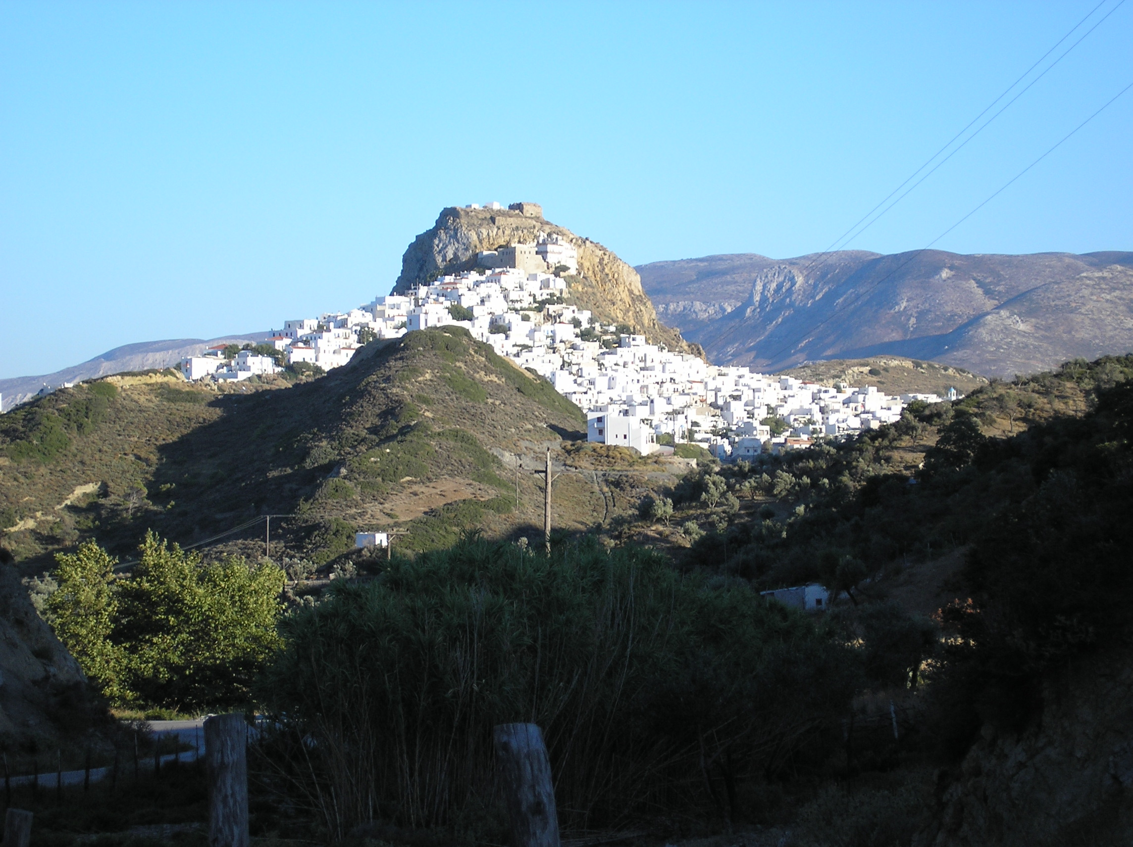 The main village of Skyros island - Greece